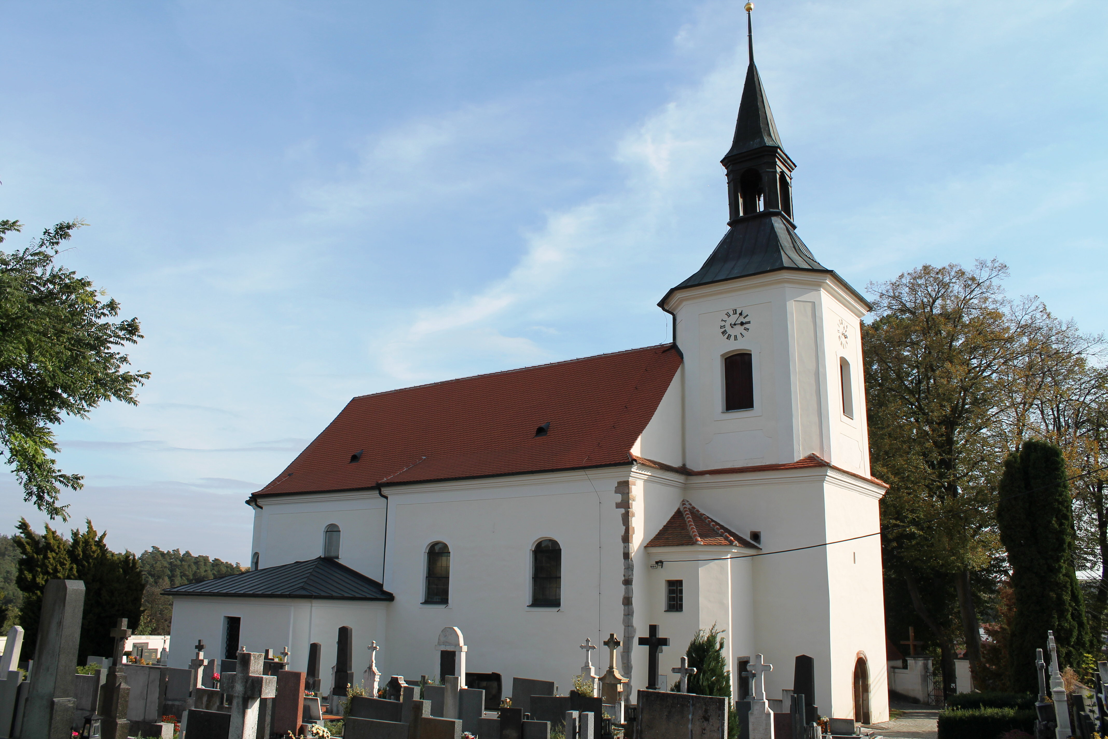 Church of Saint Nicholas, Deblín, Brno-Country District, Czech Republic